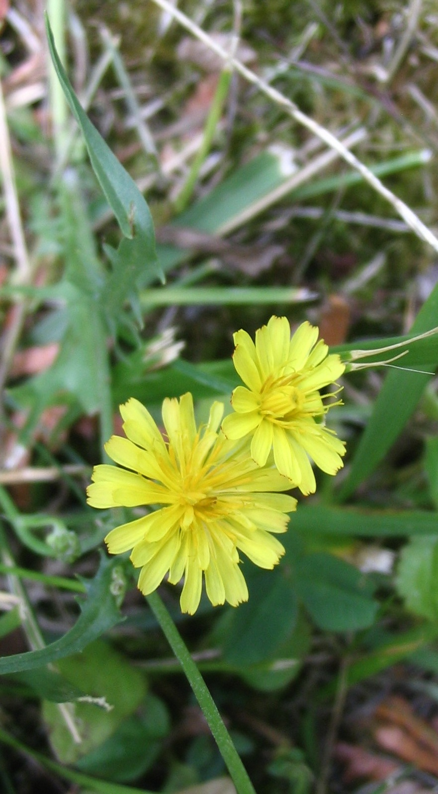 Crepis capillaris